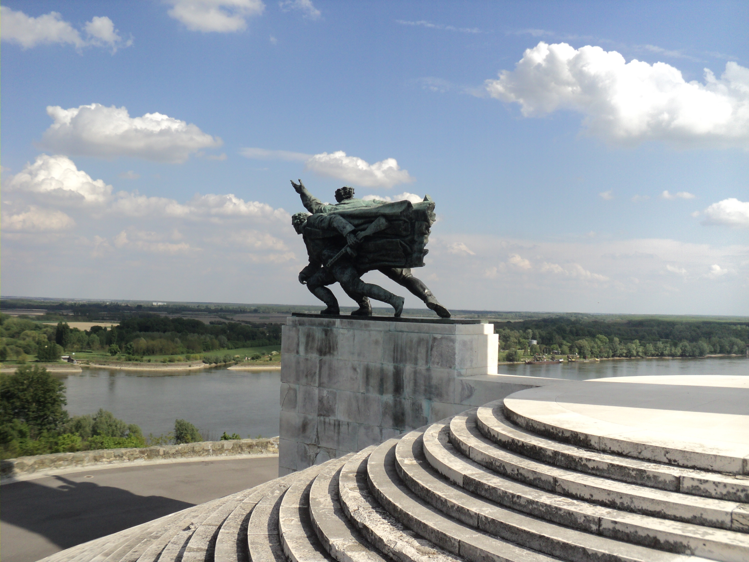 Battle of Batina Memorial. Author: Antun Augustinčić. Built in 1947.